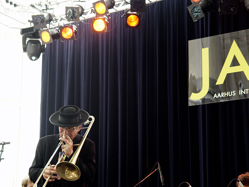 Erling Kroner, Aarhus Jazzfestival 2009